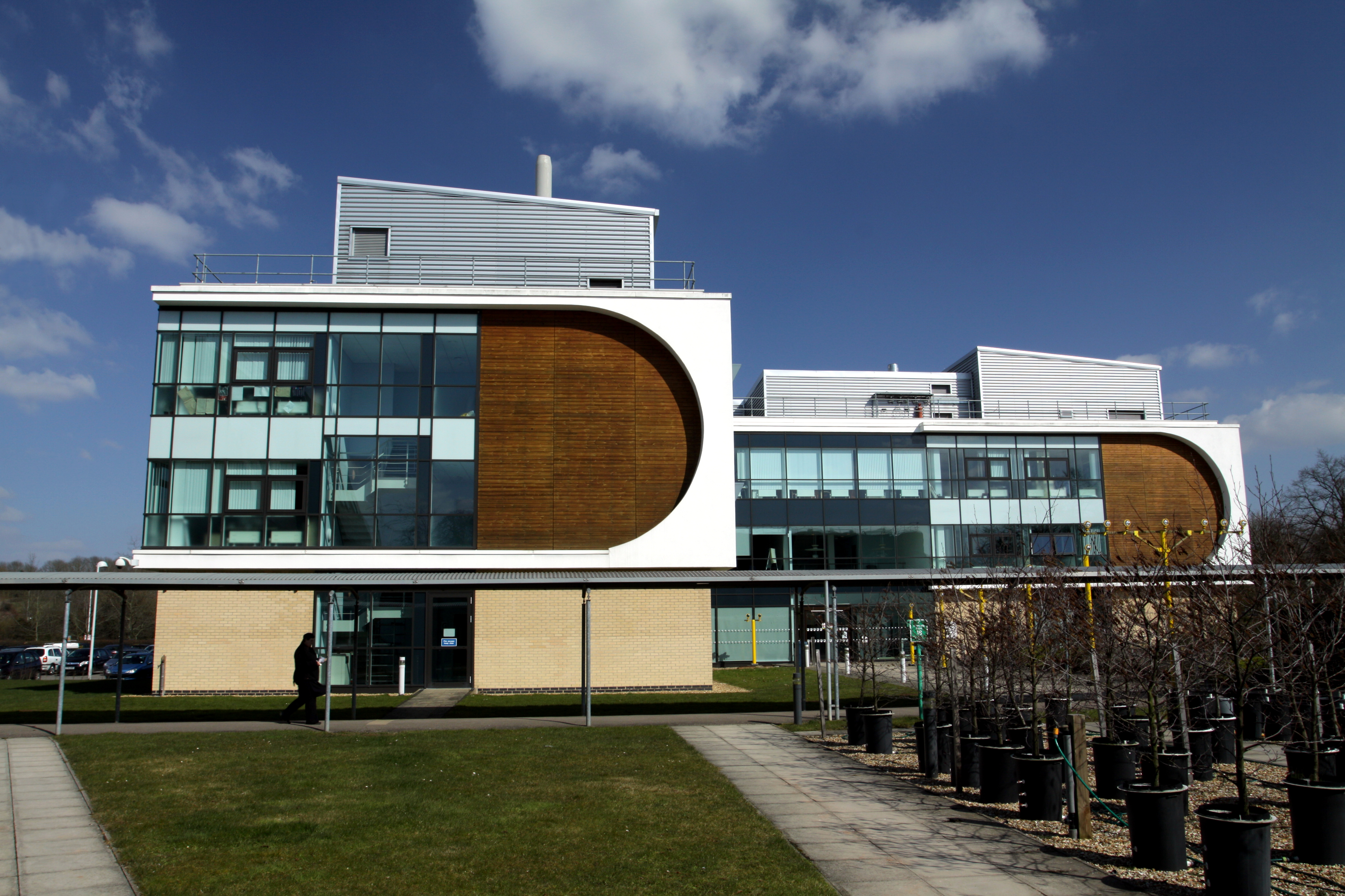 Robert Hook building at Open University Campus in Milton Keynes, England, Great Britain.